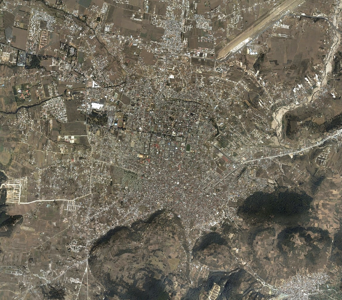 Quetzaltenango from the air